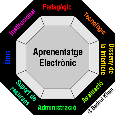 E-learning seminar at Khazar